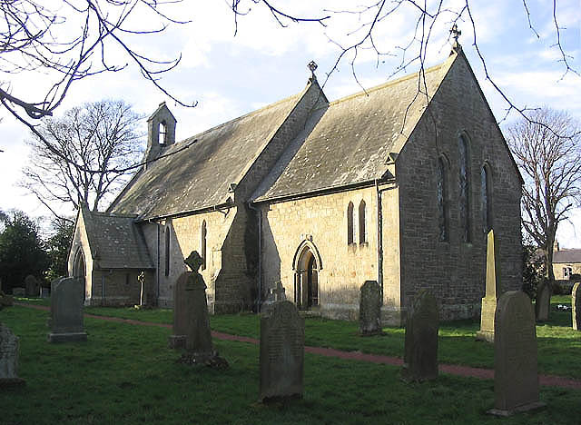 St James' parish church, South Charlton, Northumberland, seen from the east